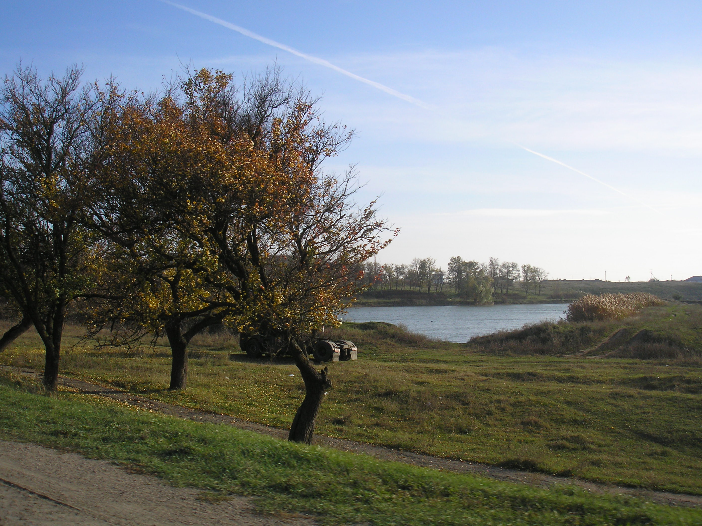 Pond at the origin of the river Tobe-Chokrak. Crimea.